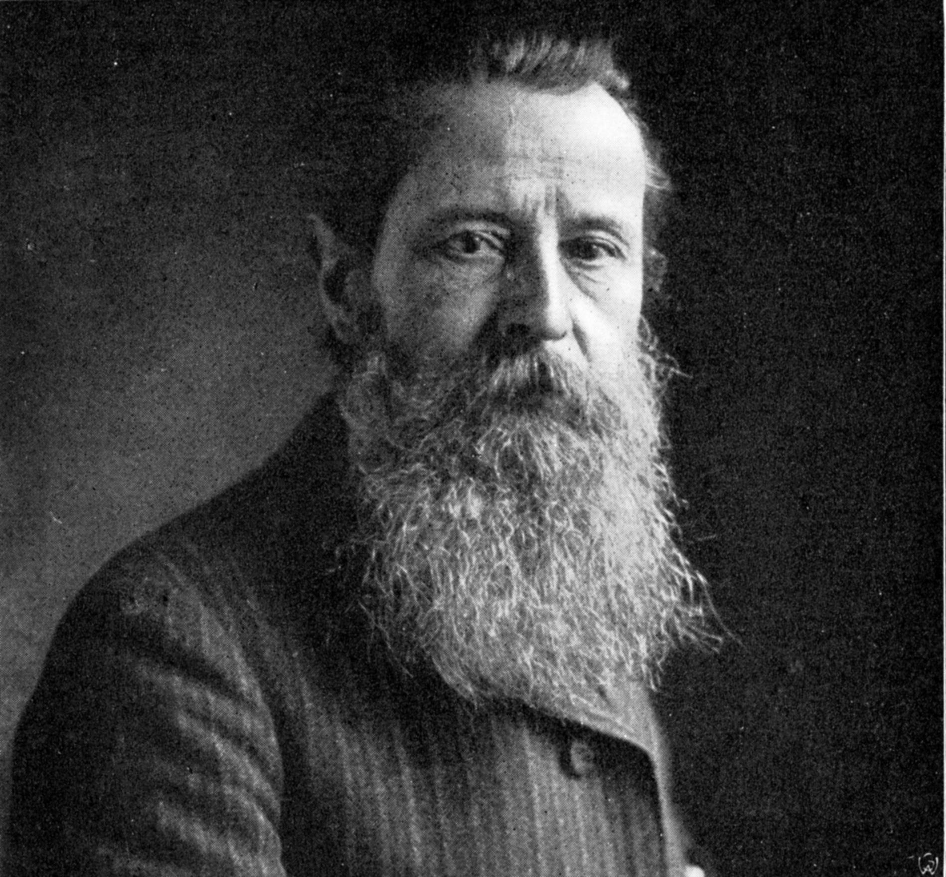 The sculptor Hermann Volz (1847-1941) from: Alfred Peltzer (1875-1914): Der Karlsruher Bildhauer Hermann Volz, in Westermanns Monatshefte, vol. 109,2 (1910/11), p. 690